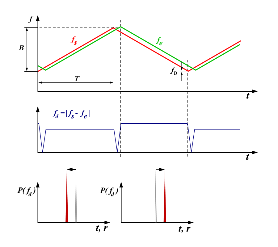 Principle of measurement of distance and radial speed simultaneously